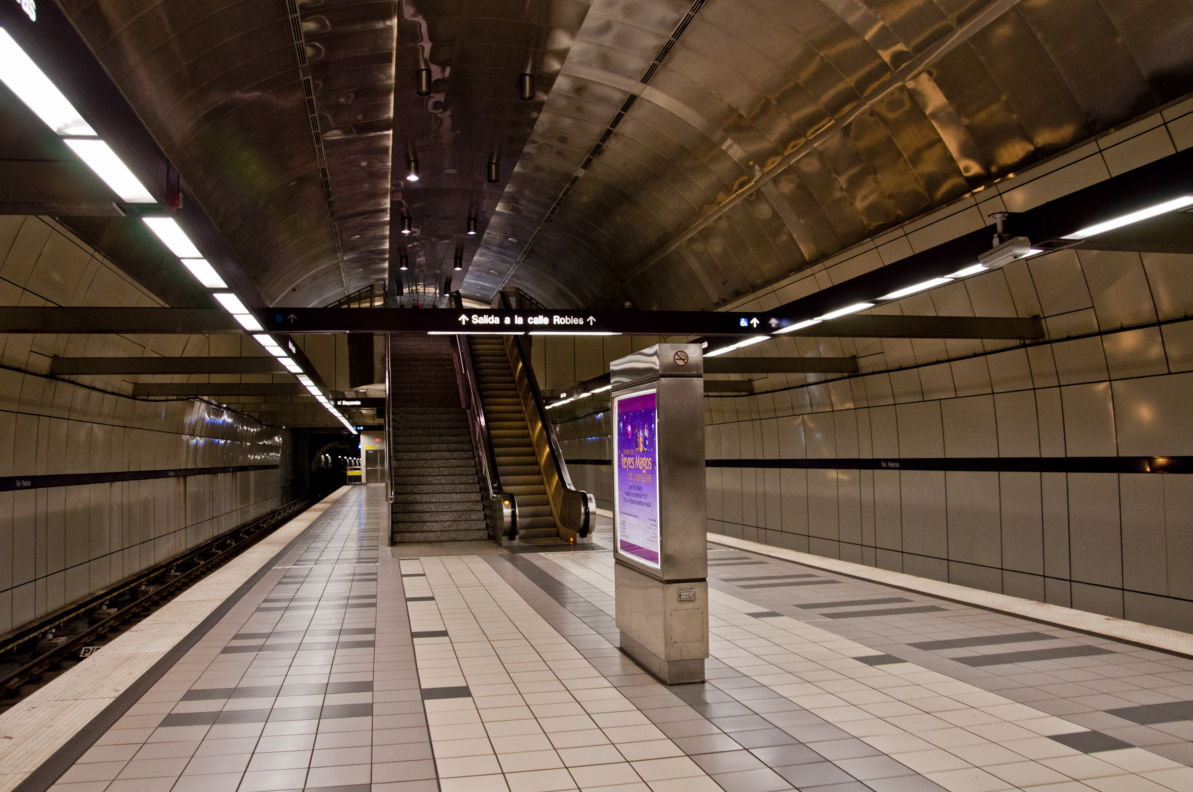 View of half the underground Río Piedras Station. All stations are designed to handle three permanently coupled pairs (6 vehicles). With a capacity of transporting around 400,000 riders daily, today Tren Urbano transports only about 40,000 riders, 10% percent of its full potential.